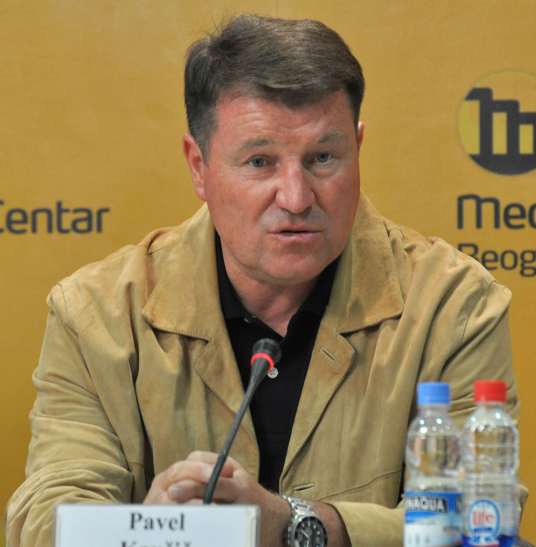 Pavle Kavčič